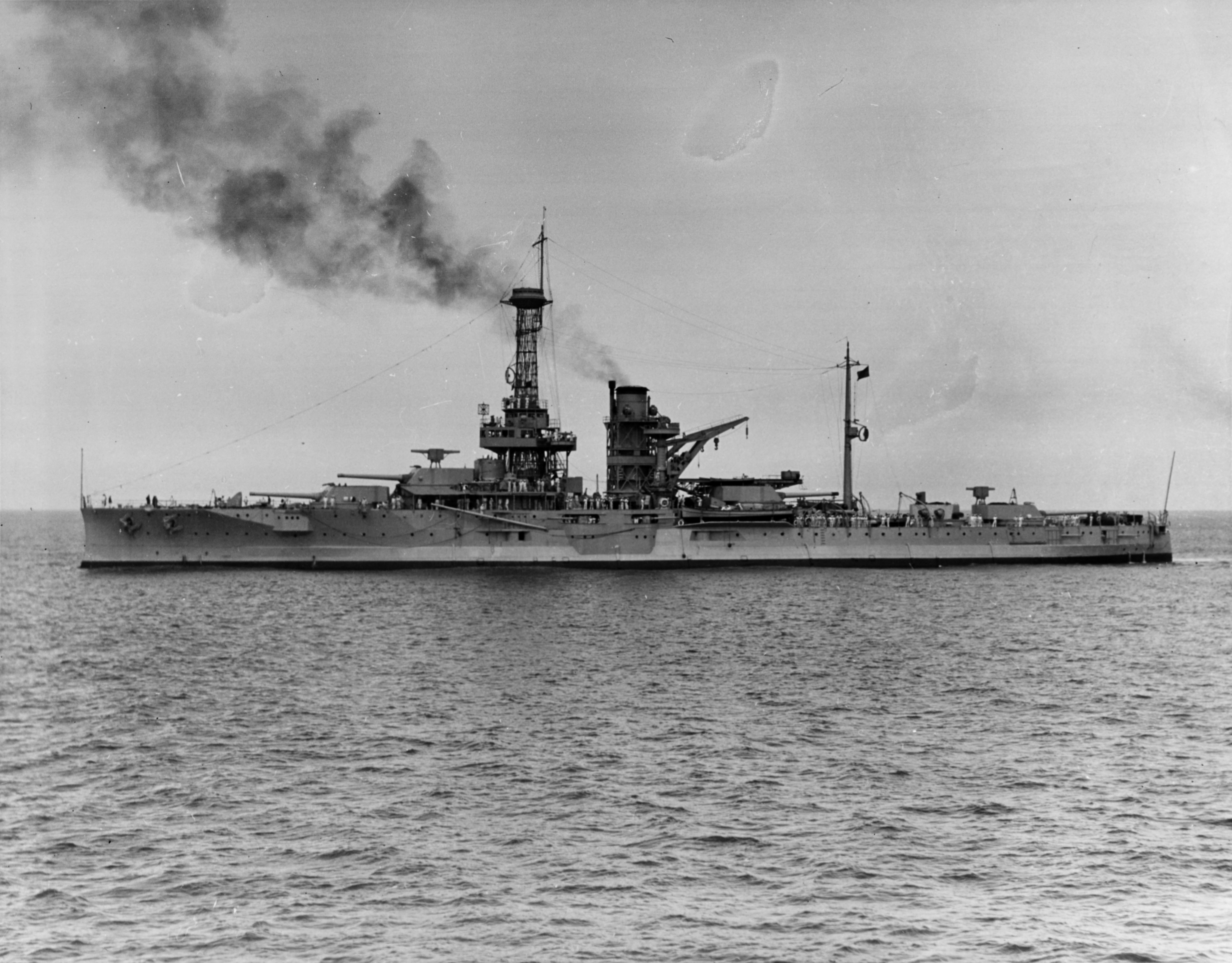 In Hampton Roads, Virginia, 25 October 1929. Donation of Franklin Moran, 1967. U.S. Naval History and Heritage Command Photograph.